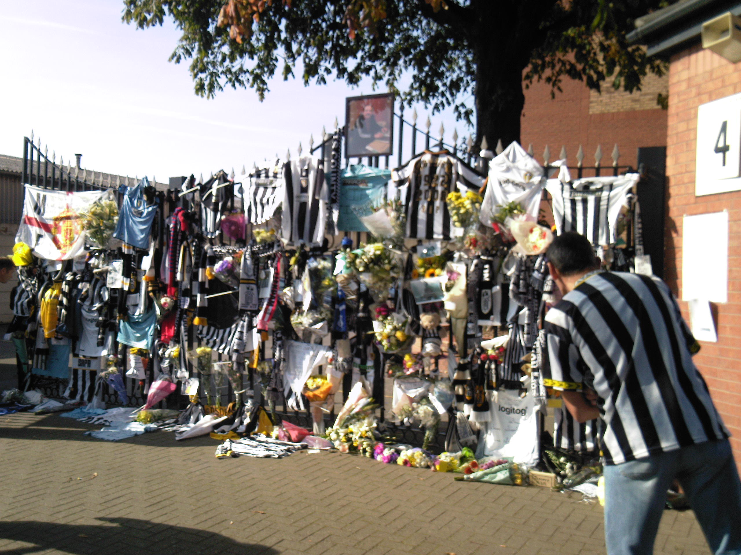 Tribute to Jimmy Sirrel at Meadow Lane.